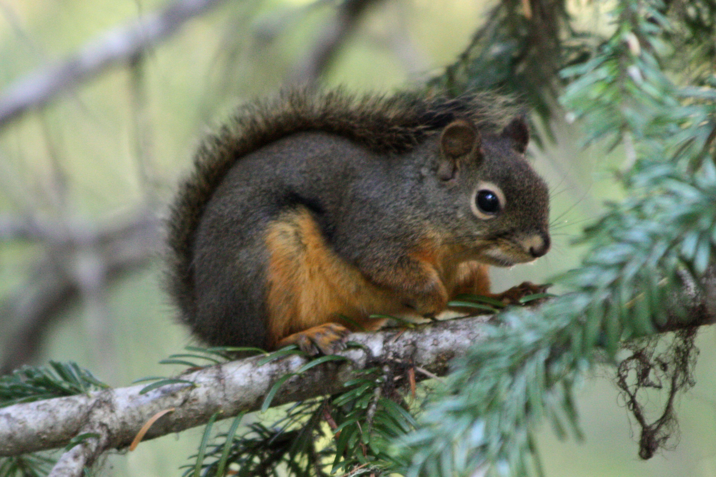 Douglas Squirrel on a Pacific Silver Fir (Abies amabilis) branch